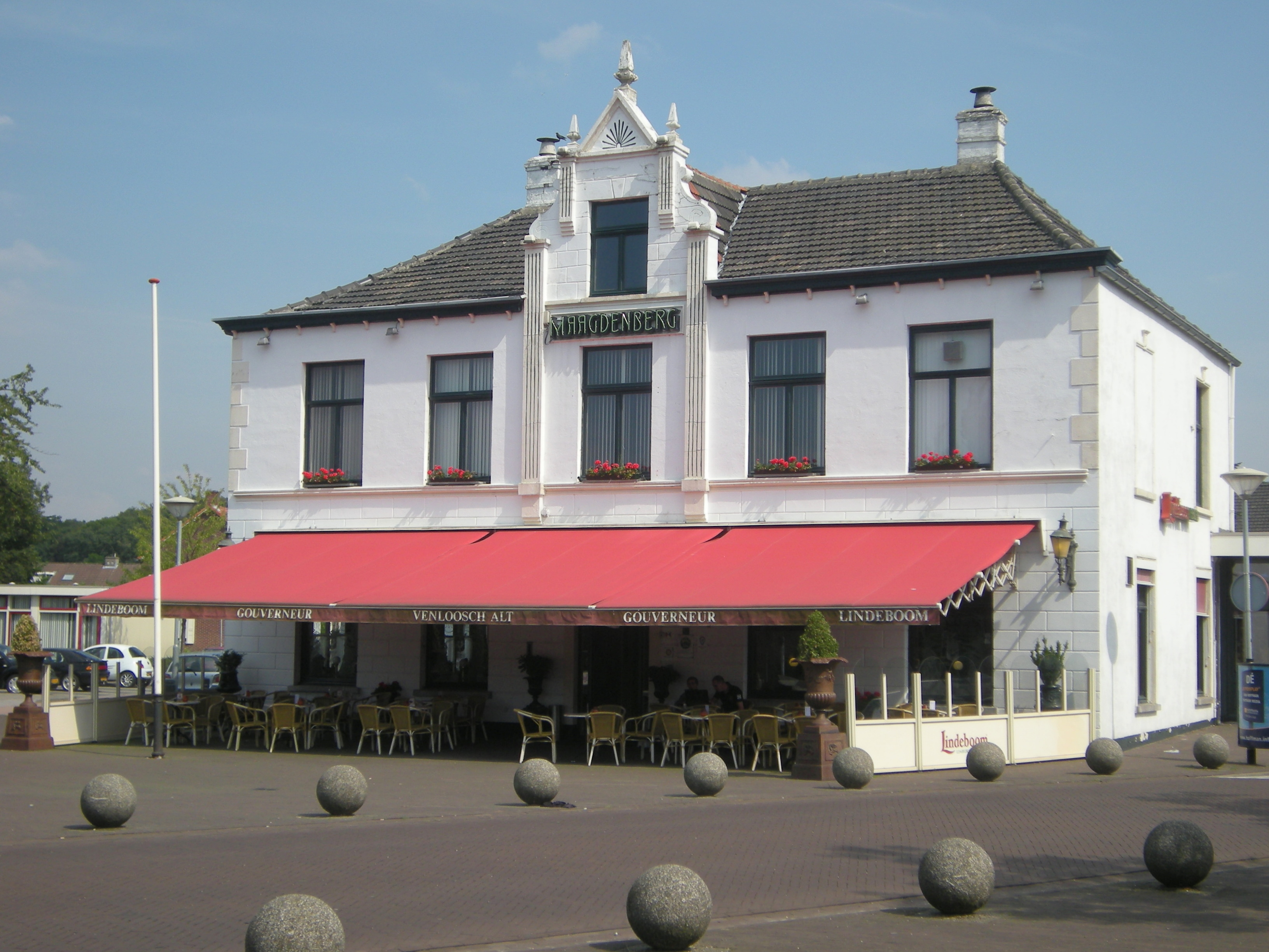 Maagdenberg house Venlo